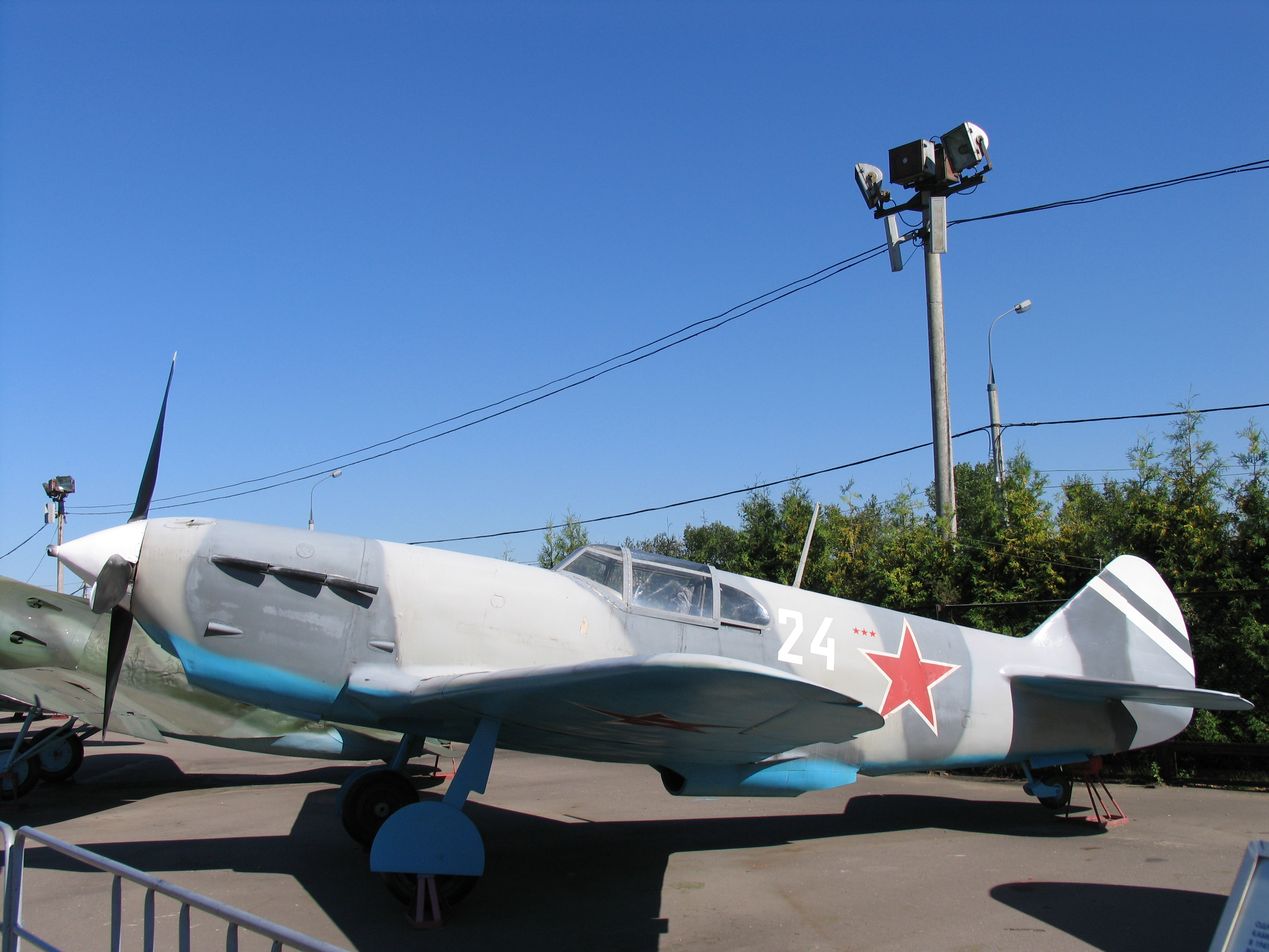 LaGG-3 on display